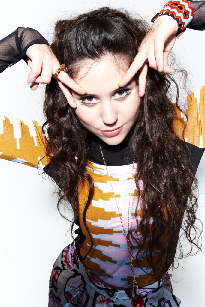 Eliza Doolittle, English singer